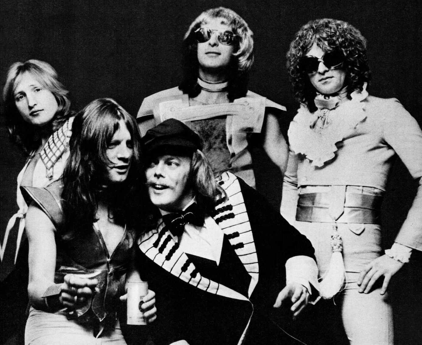 Trade ad for Mott the Hoople's single "Roll Away The Stone".To better adapt it to his respective Wikipedia article, the ad was cropped and cleaned in a graphics editing program. The original can be viewed at the source below.